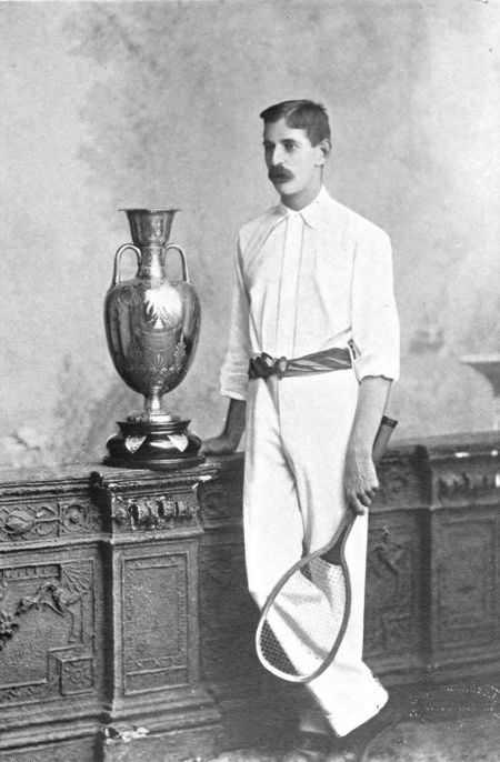 Joshua Pim (20 May 1869 – 15 April 1942) – former tennis player.